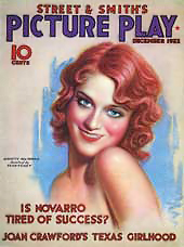 Jeanette MacDonald on the cover of the December 1932 American movie magazine Picture Play.